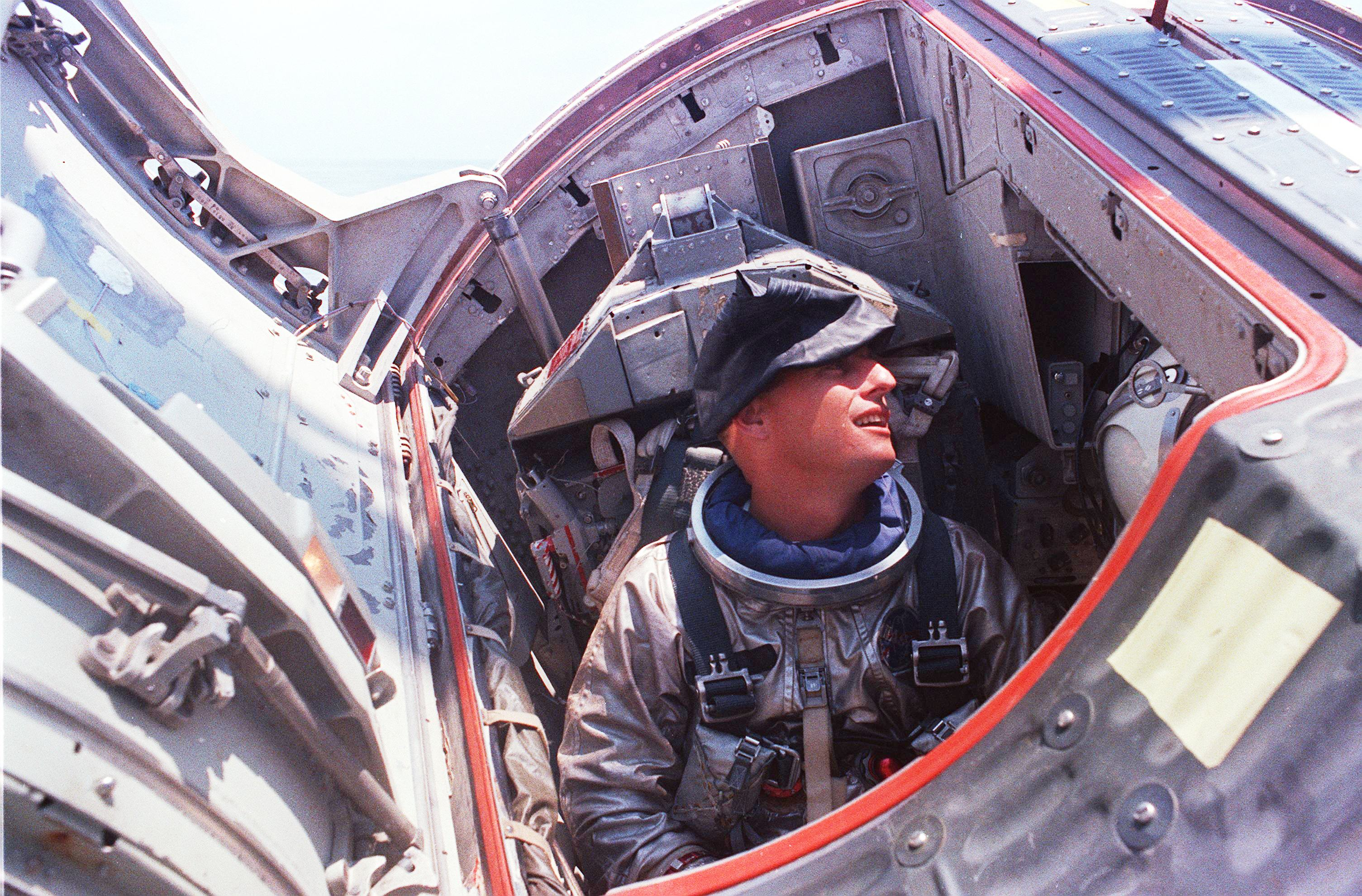 Astronaut Charles Conrad Jr., Gemini-5 pilot, sits in the Gemini Static Article 5 spacecraft and prepares to be lowered from the deck of the NASA Motor Vessel Retriever for water egress training. The rubber hat on Conrad's head is a neck dam and pulls down and fits tightly around the collar of his suit to prevent water from entering the suit.